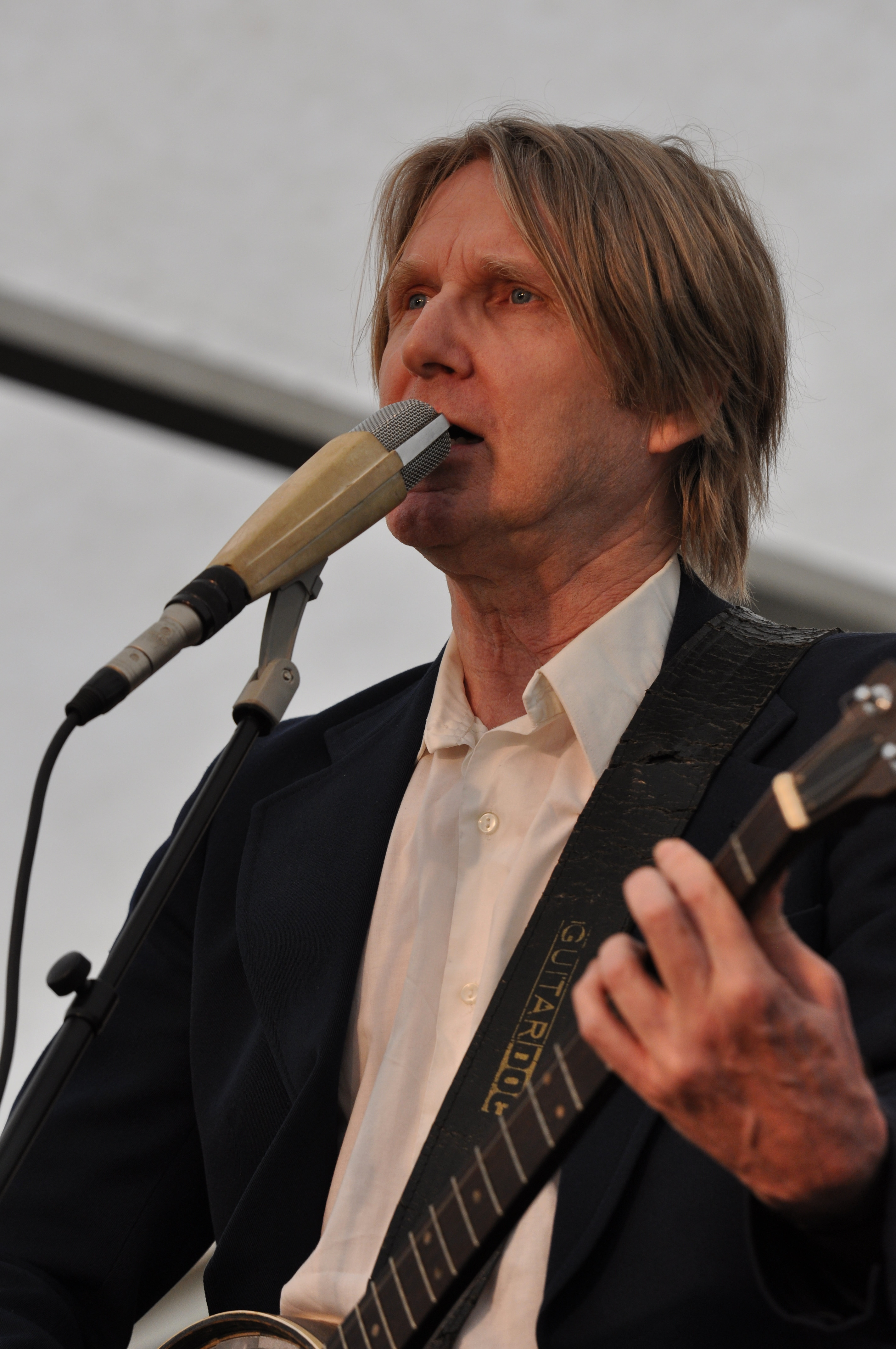 Lüül & Band (Lutz Graf-Ulbrich) at the 2016 song festival at Waldeck castle, Dorweiler, Rhineland- Palatinate, Germany Festivalsommer This photo was created with the support of donations to Wikimedia Deutschland in the context of the CPB project "Festival Summer".